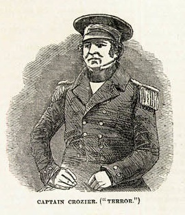 Captain Francis Crozier. This image was published in the United States in 1851, and is in the public domain worldwide.